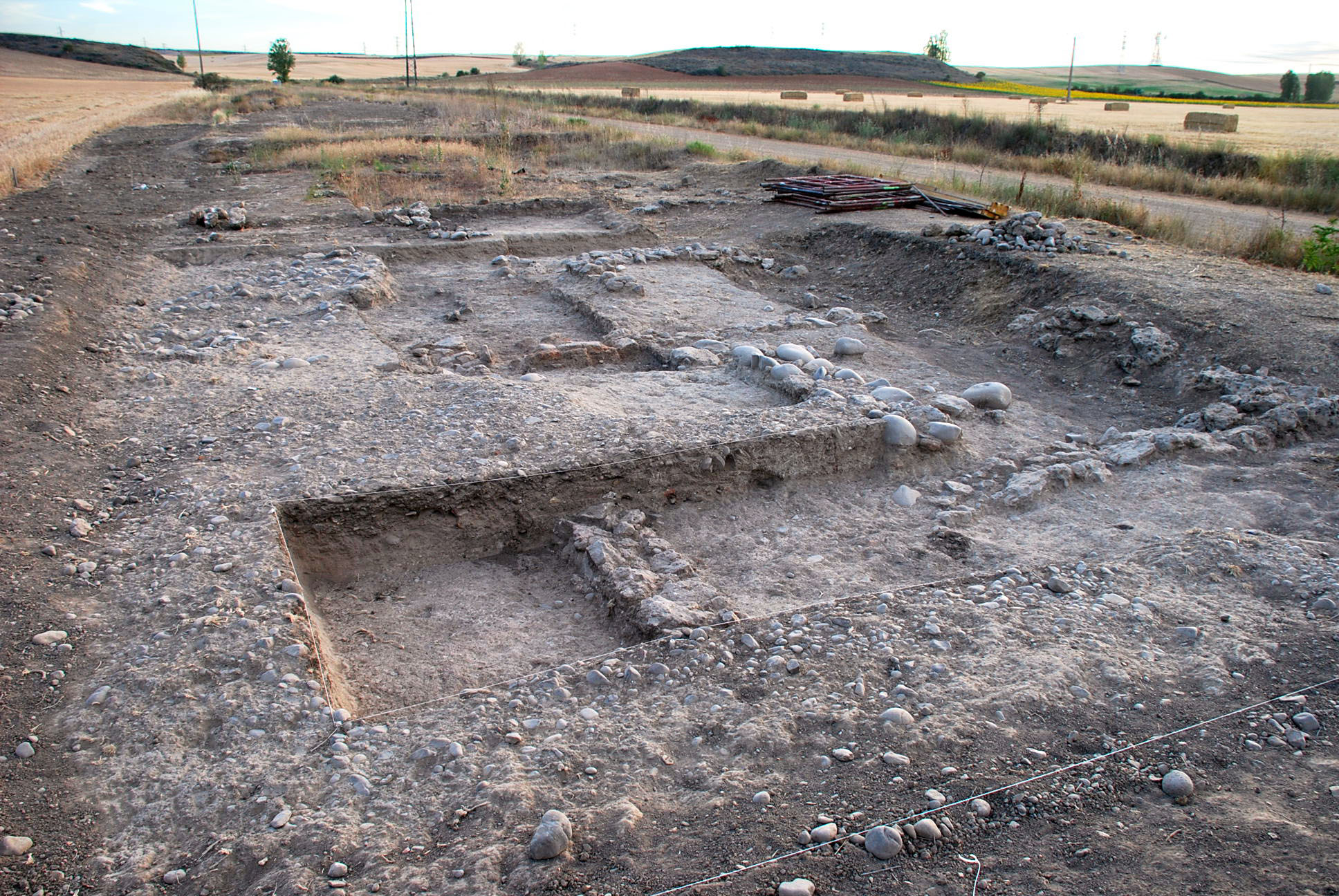 Archaeological excavations in the cannaba of Pisoraca (Herrera de Pisuerga, Castile and Leon).